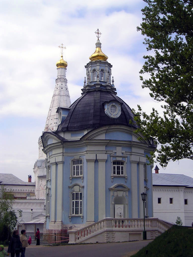 Smolenskaya Church of the Trinity Lavra